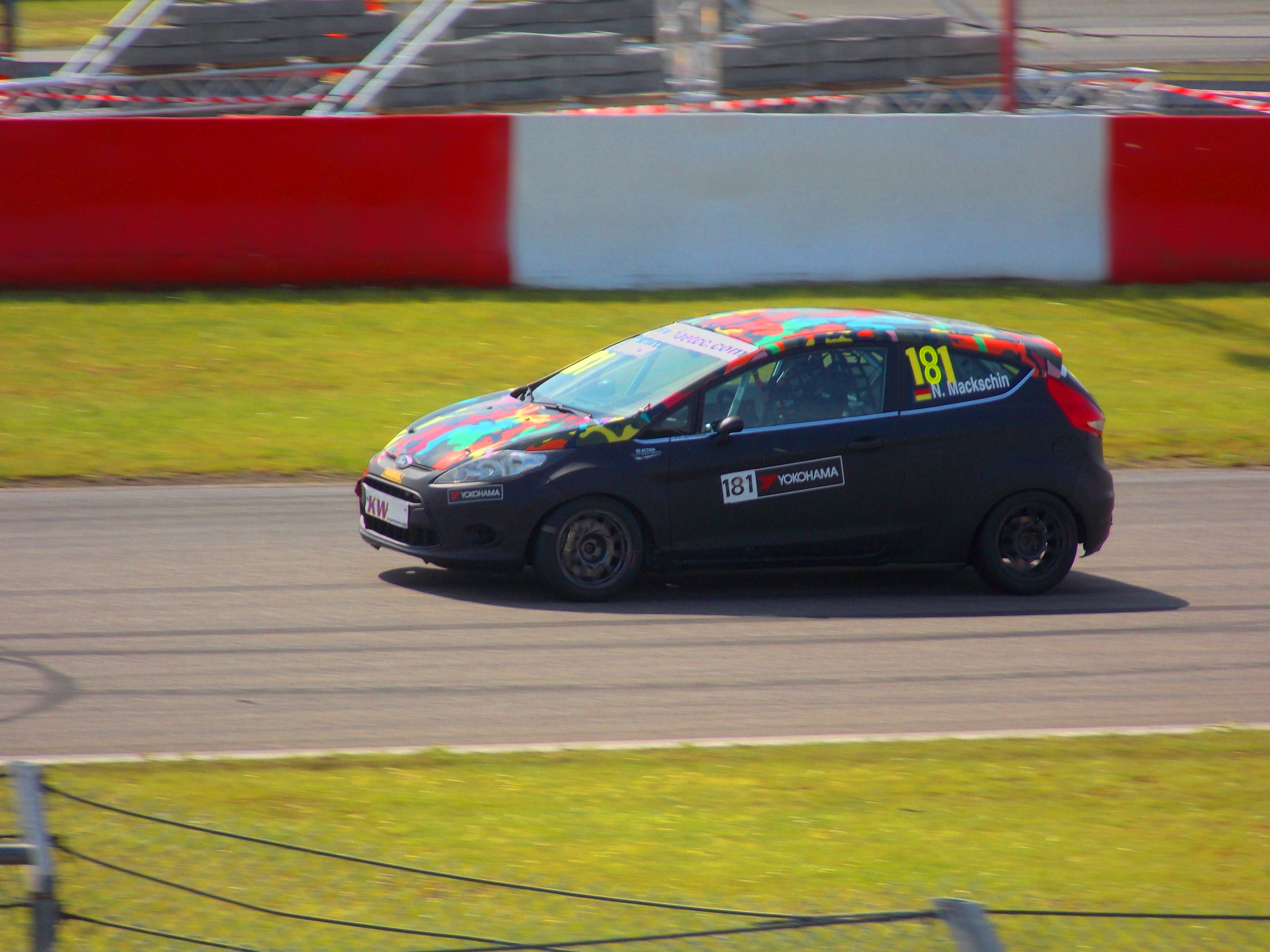 Niklas Mackschin in Race 1 on Nürburgring Nordschleife of 2016 ETCC season. After a technical problem Mackschin was only driving slowly.